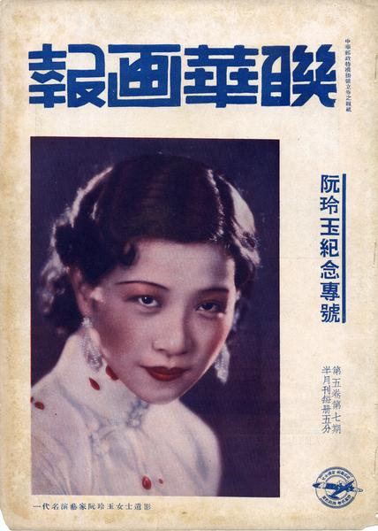 Ruan Linyu, Movie Star in China in the 1920s-1930s